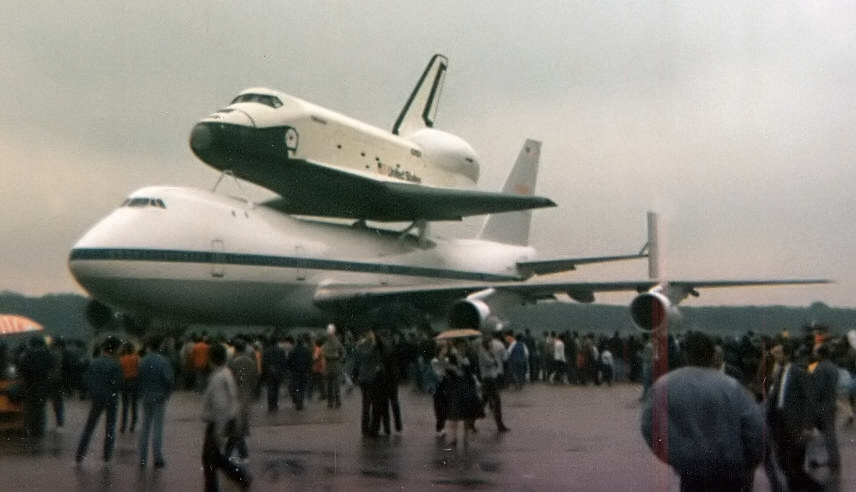 Space Shuttle Enterprise at the Airport Cologne-Bonn